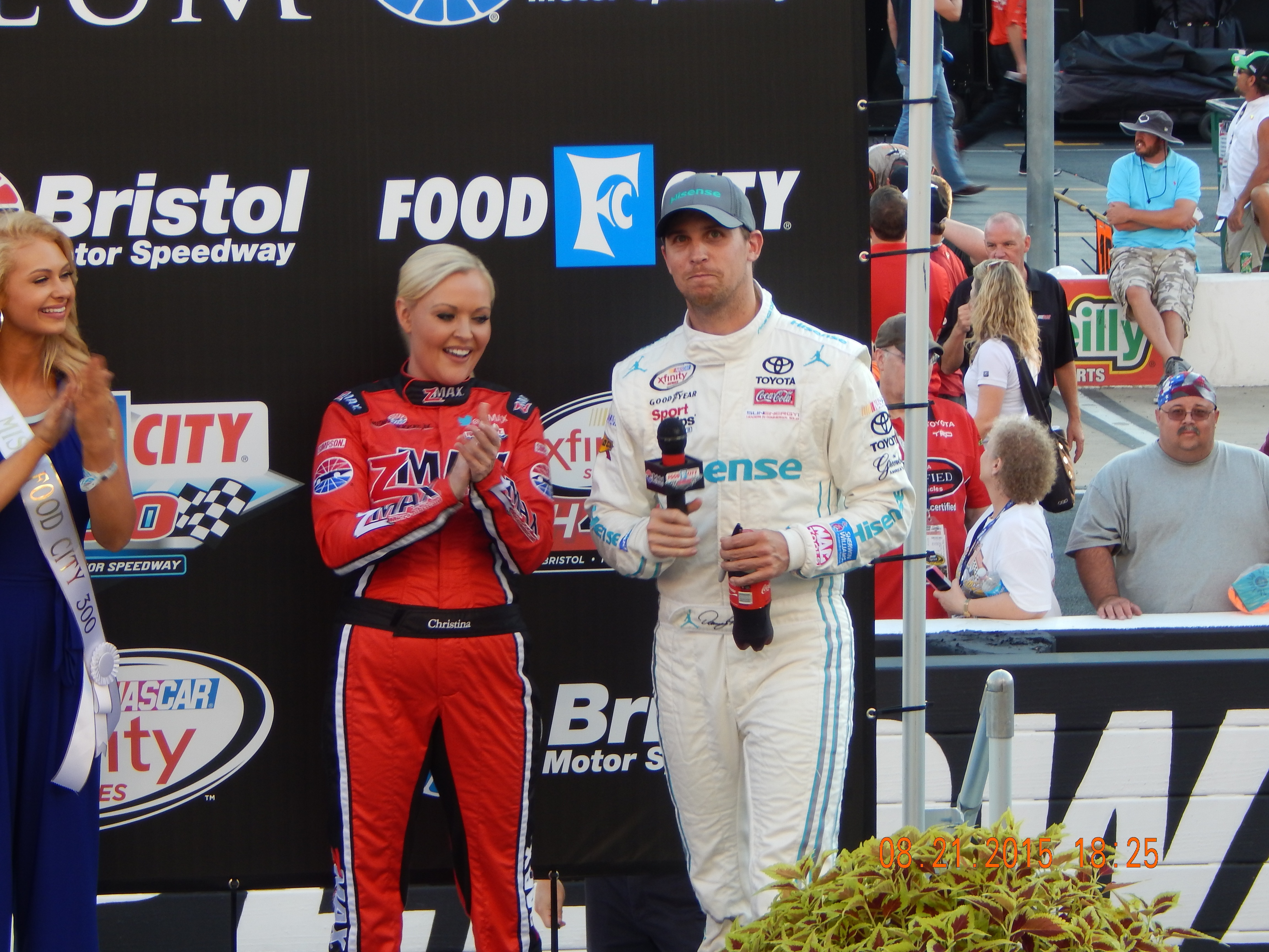 Denny Hamlin being introduced at Bristol Motor Speedway for the 2015 Food City 300.